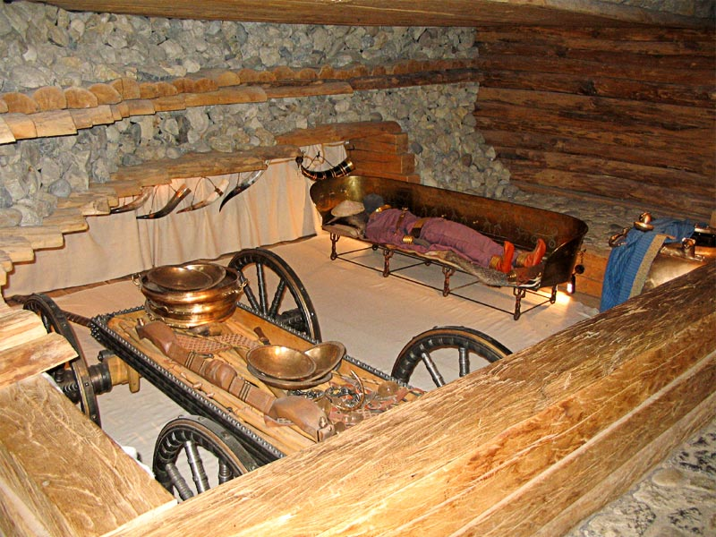 Reconstruction of the Celtic Hochdorf Chieftain's Grave in the museum nearby the location of the original grave